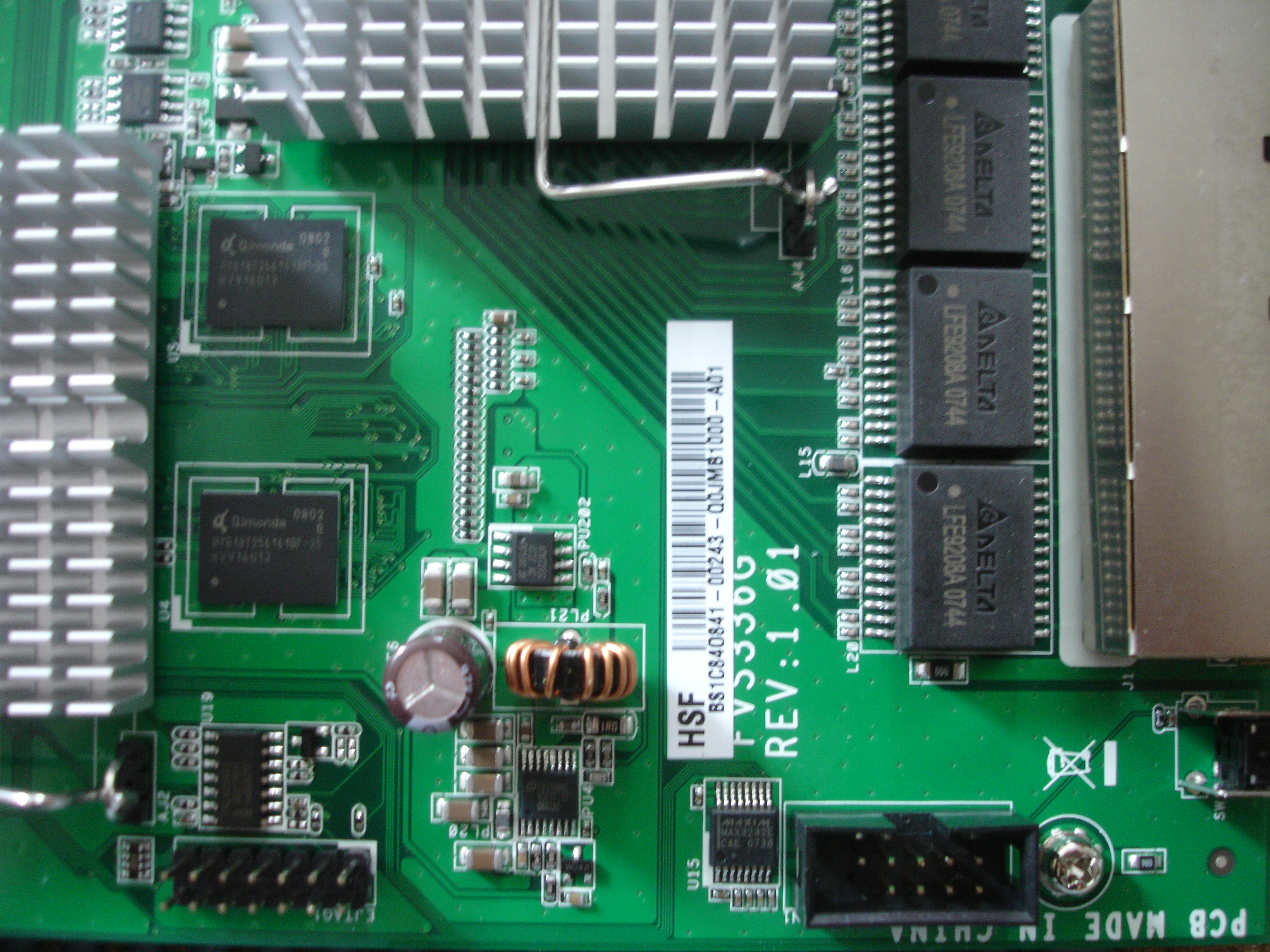 Netgear FVS336G network appliance inside, revealing JTAG interface.